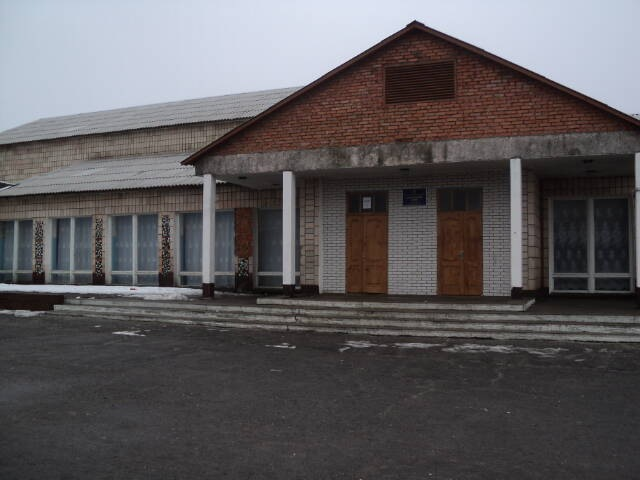 Сlub of Odrynky